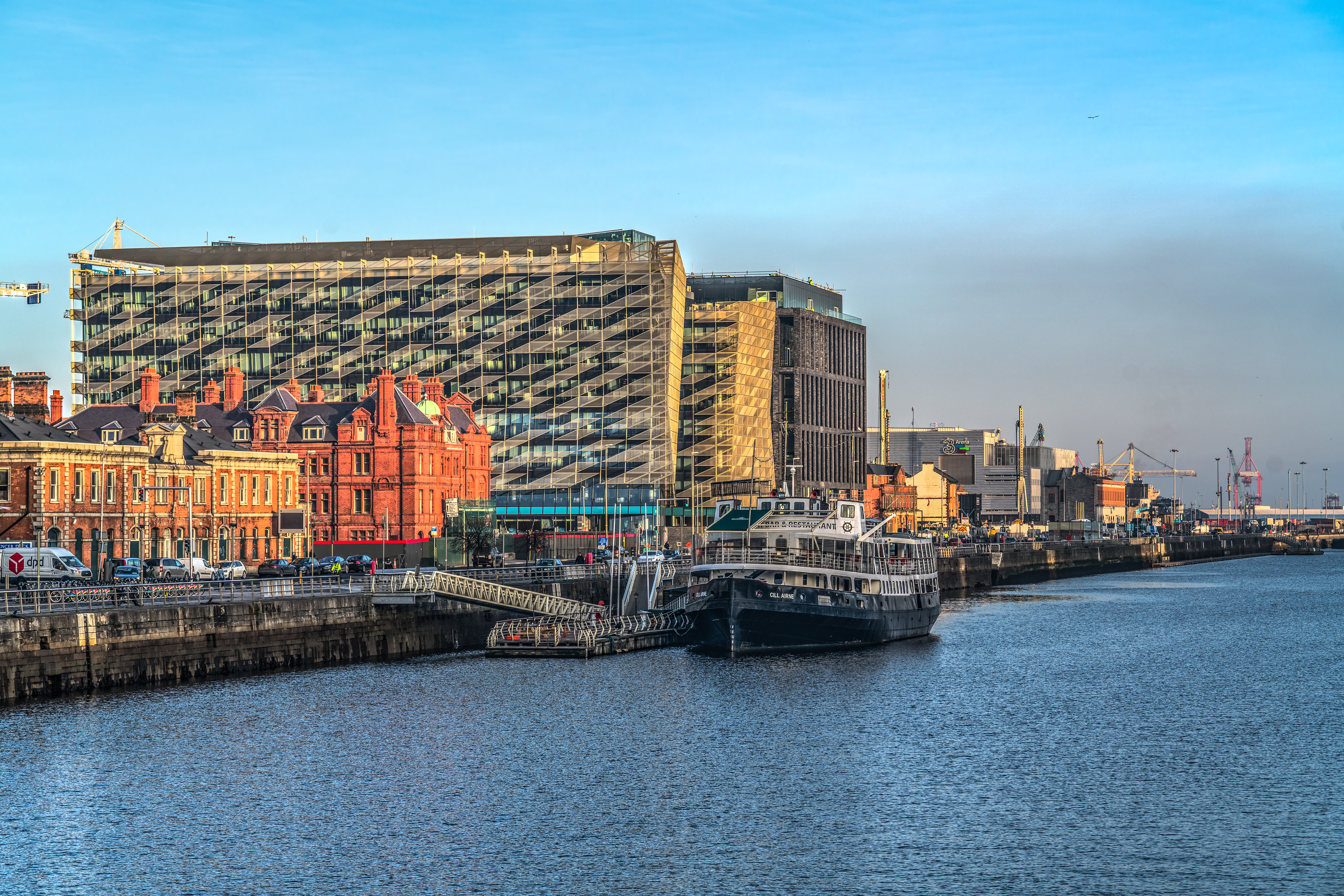 The Central Bank of Ireland is Ireland's central bank, and as such part of the European System of Central Banks (ESCB). It is also the country's financial services regulator for most categories of financial firms. It was the issuer of Irish pound banknotes and coinage until the introduction of the euro currency, and now provides this service for the European Central Bank. The Central Bank was founded on 1 February 1943 and since 1 January 1972 has been the banker of the Government of Ireland in accordance with the Central Bank Act 1971,which can be seen in legislative terms as completing the long transition from a currency board to a fully functional central bank. Its head office was located on Dame Street, Dublin from 1979 until 2017. Its offices at Iveagh Court and College Green also closed down at the same time. Since March 2017, its headquarters are located on North Wall Quay, where the public may exchange non-current Irish coinage and currency (both pre- and post-decimalization) for euros, as well as High Value Euro Currency Bank Notes and Mutilated Currency. It also operates from premises at nearby Spencer Dock. The Currency Centre at Sandyford is the currency manufacture, warehouse and distribution site of the bank.